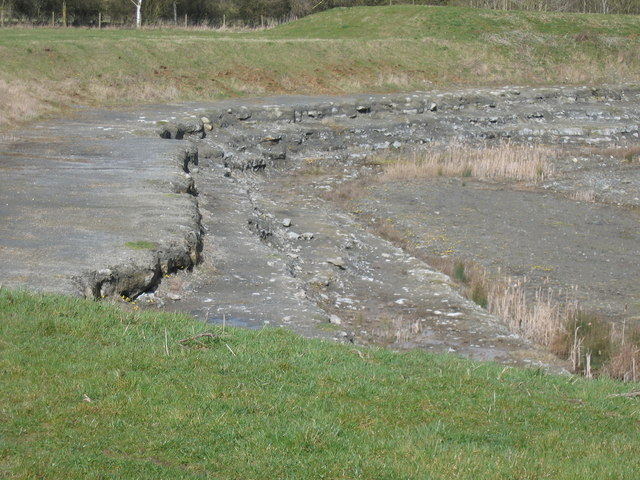 Shorncote Quarry showing cornbrash layers. This is a gravel quarry, but the gravel layer turned out to be very thin, so the underlying rock was also extracted. This part is partially restored.